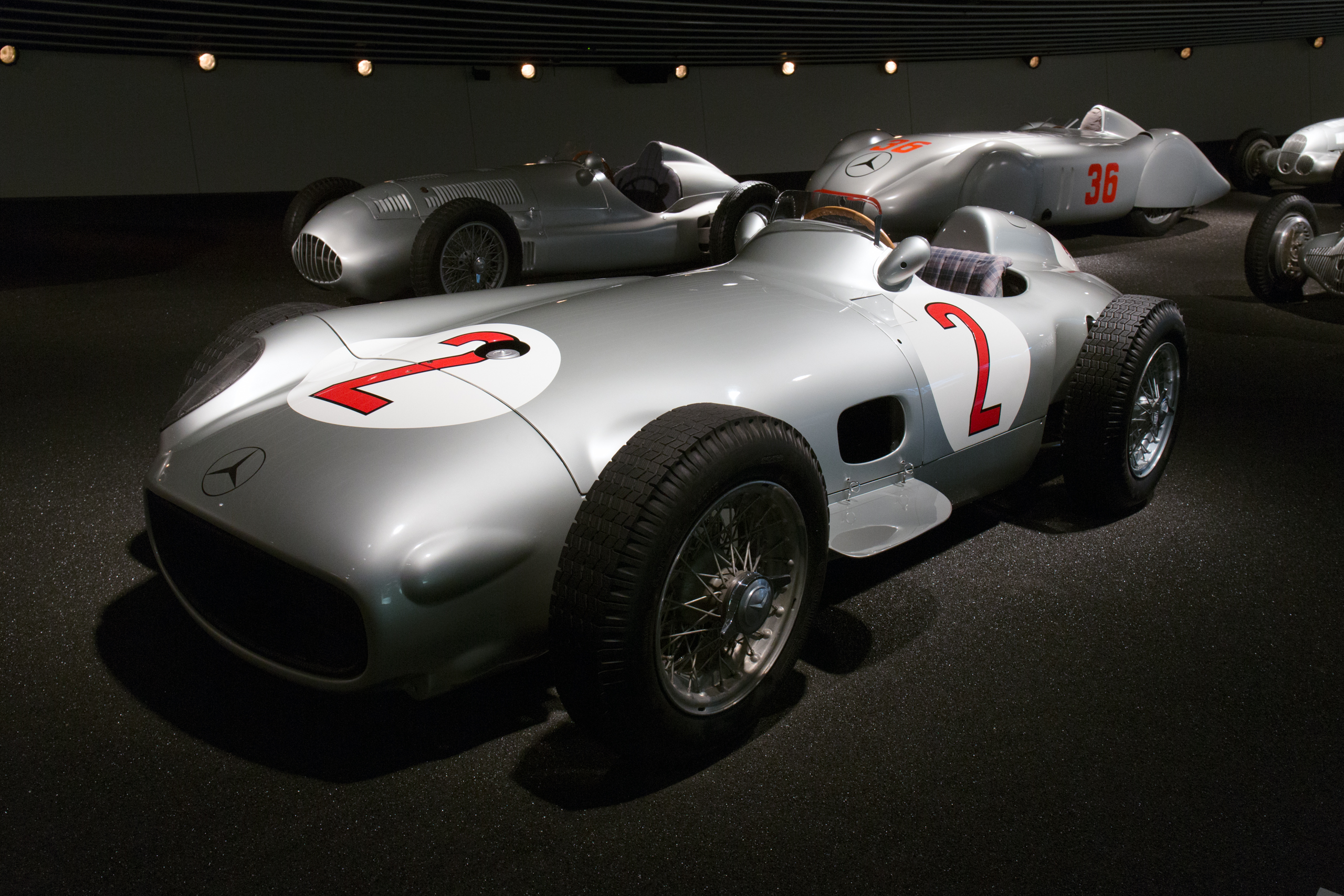 Mercedes-Benz W196R